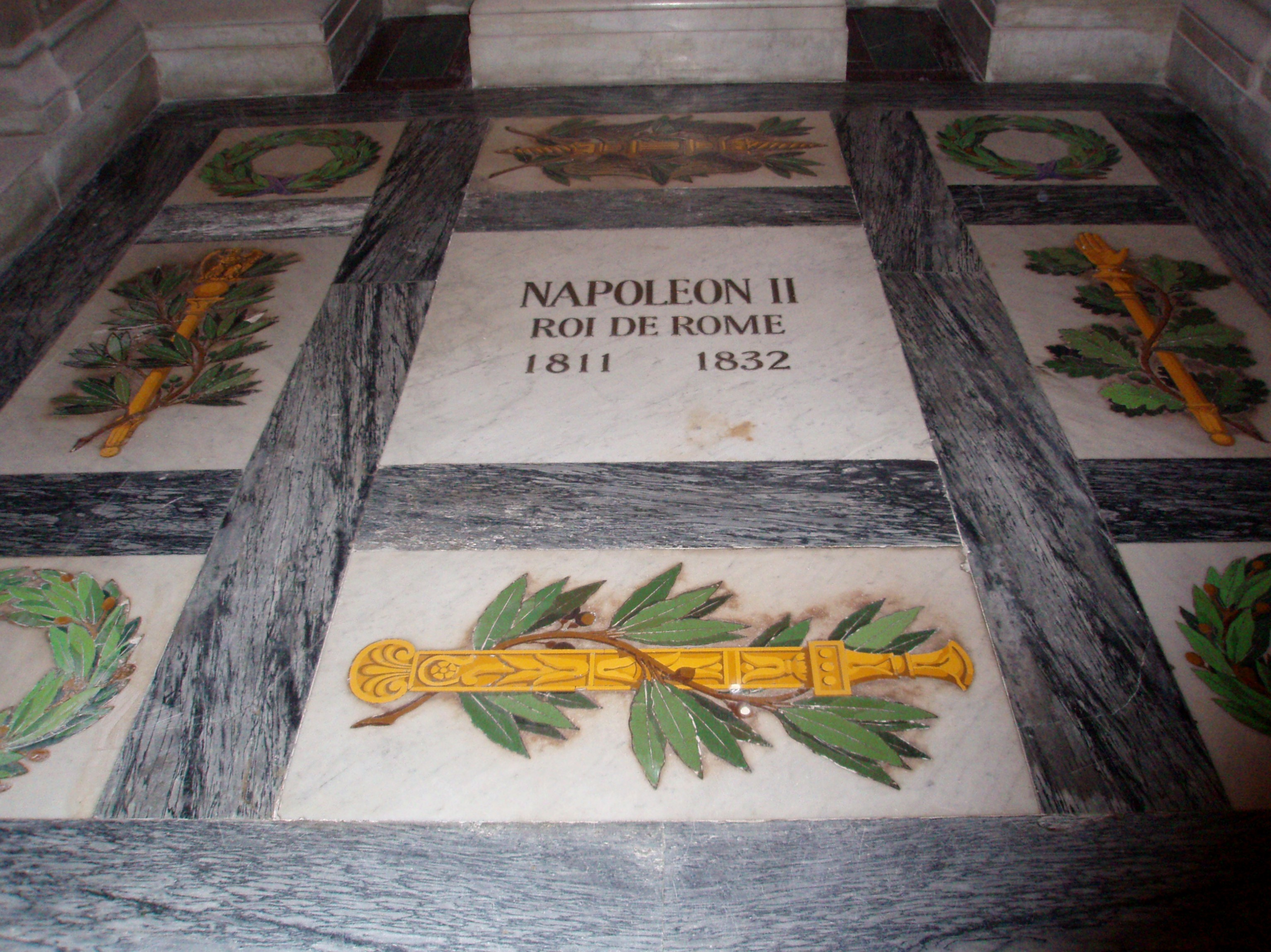 Tomb of Napoleon II in Les Invalides, Paris.